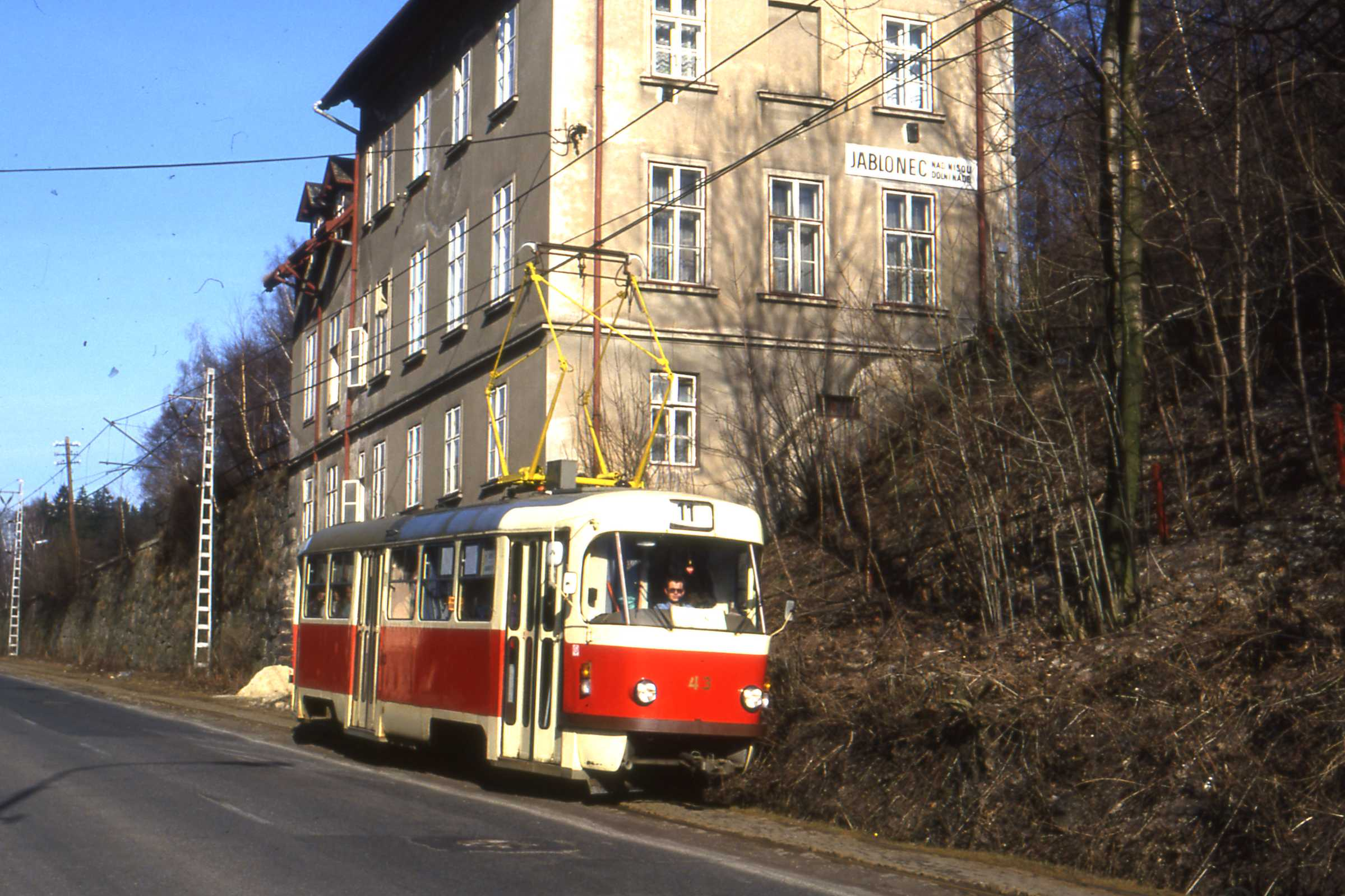 Tatra T3 tram in Jablonec nad Nisou, Czech Republic, 1994